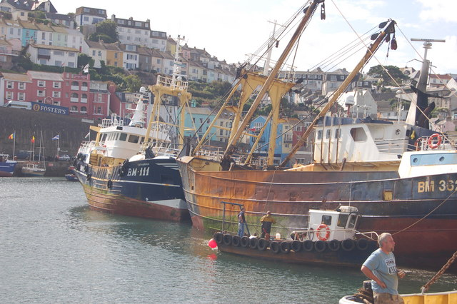 Brixham Trawlers Much needed maintenance being carried out, inside Brixham harbour.